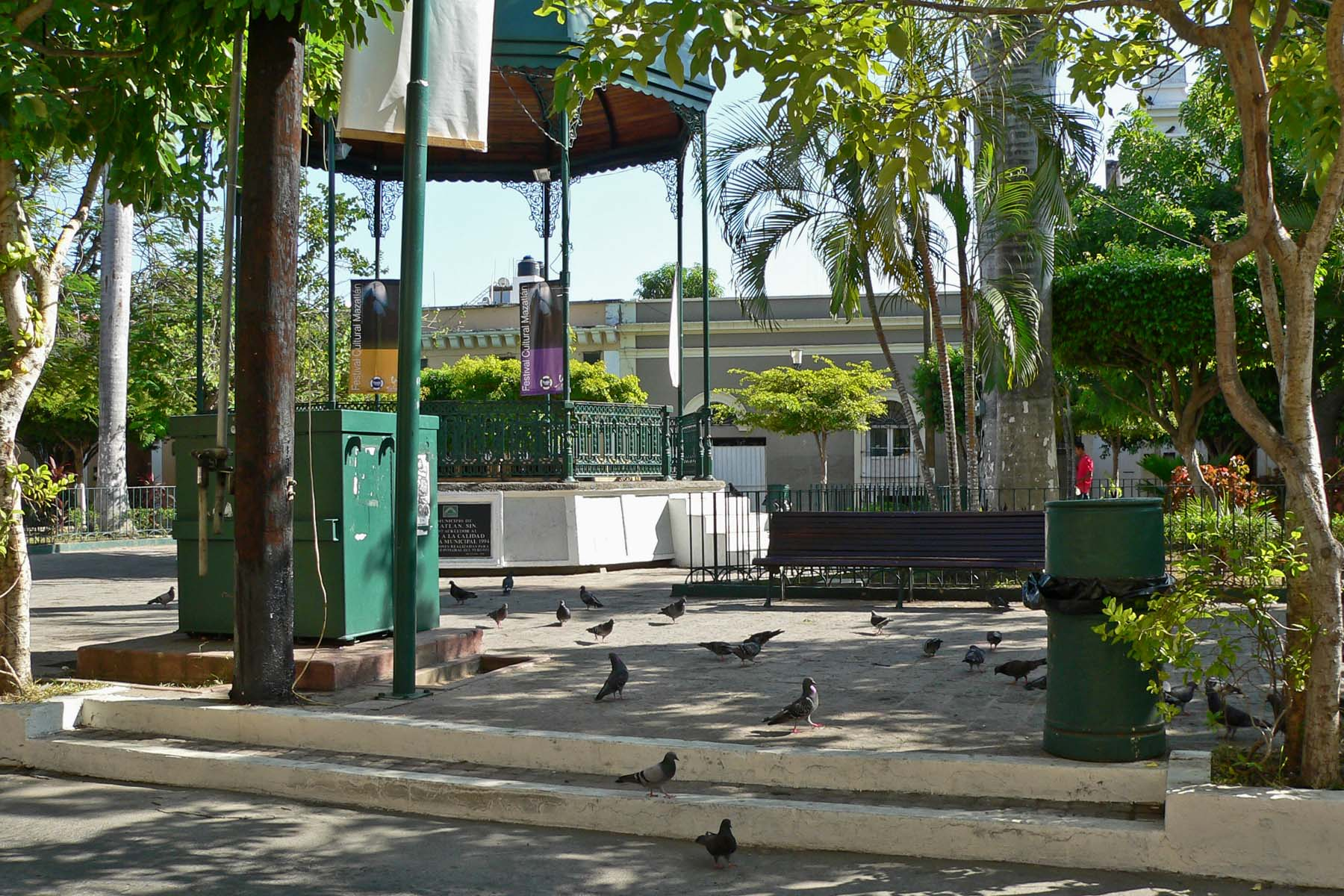 Photo of Plaza Machado in Mazatlan